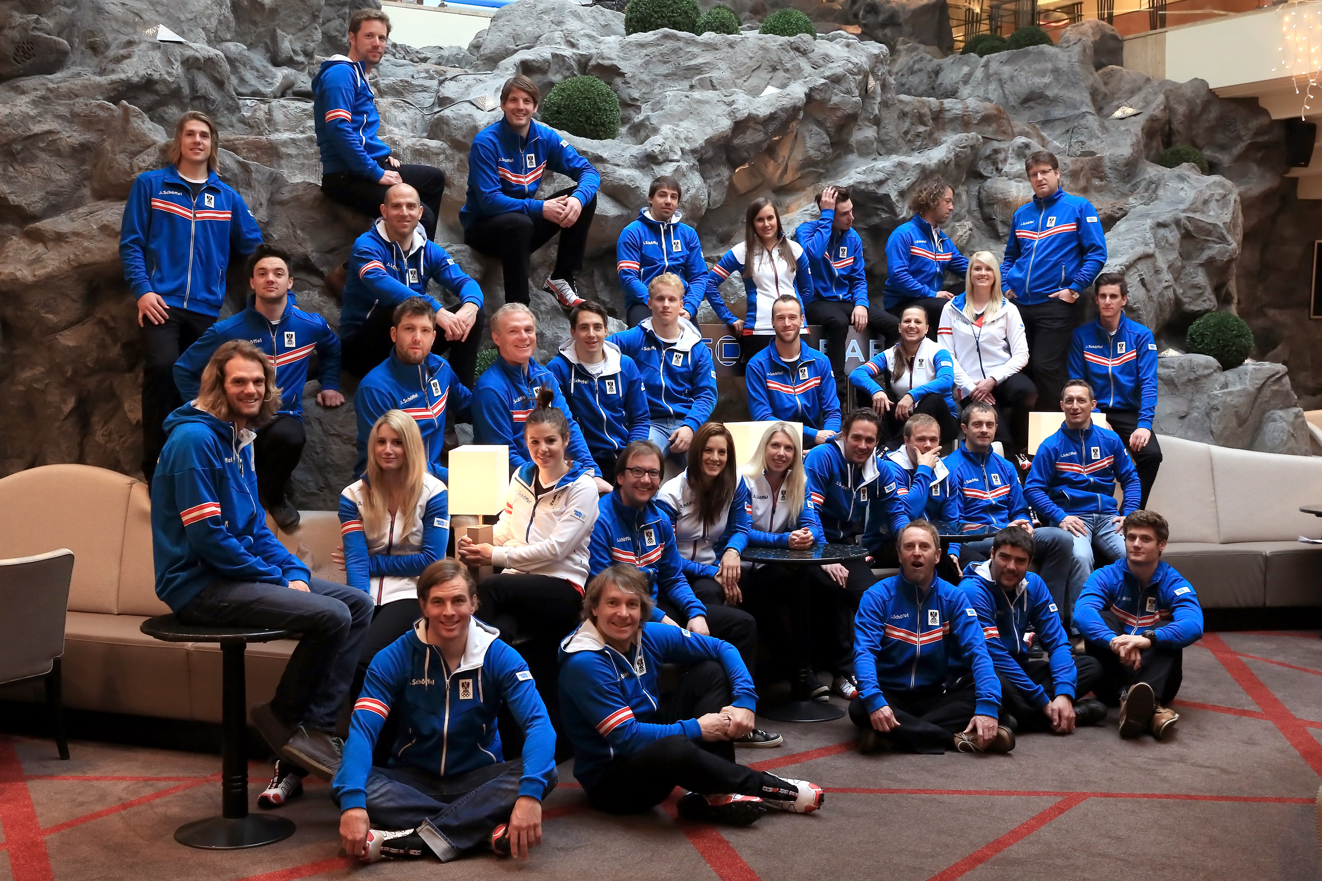 The snowboarders (athletes and support) at the outfitting of the Austrian team for the 2014 Winter Olympics (Hotel Marriott in Vienna, Austria.